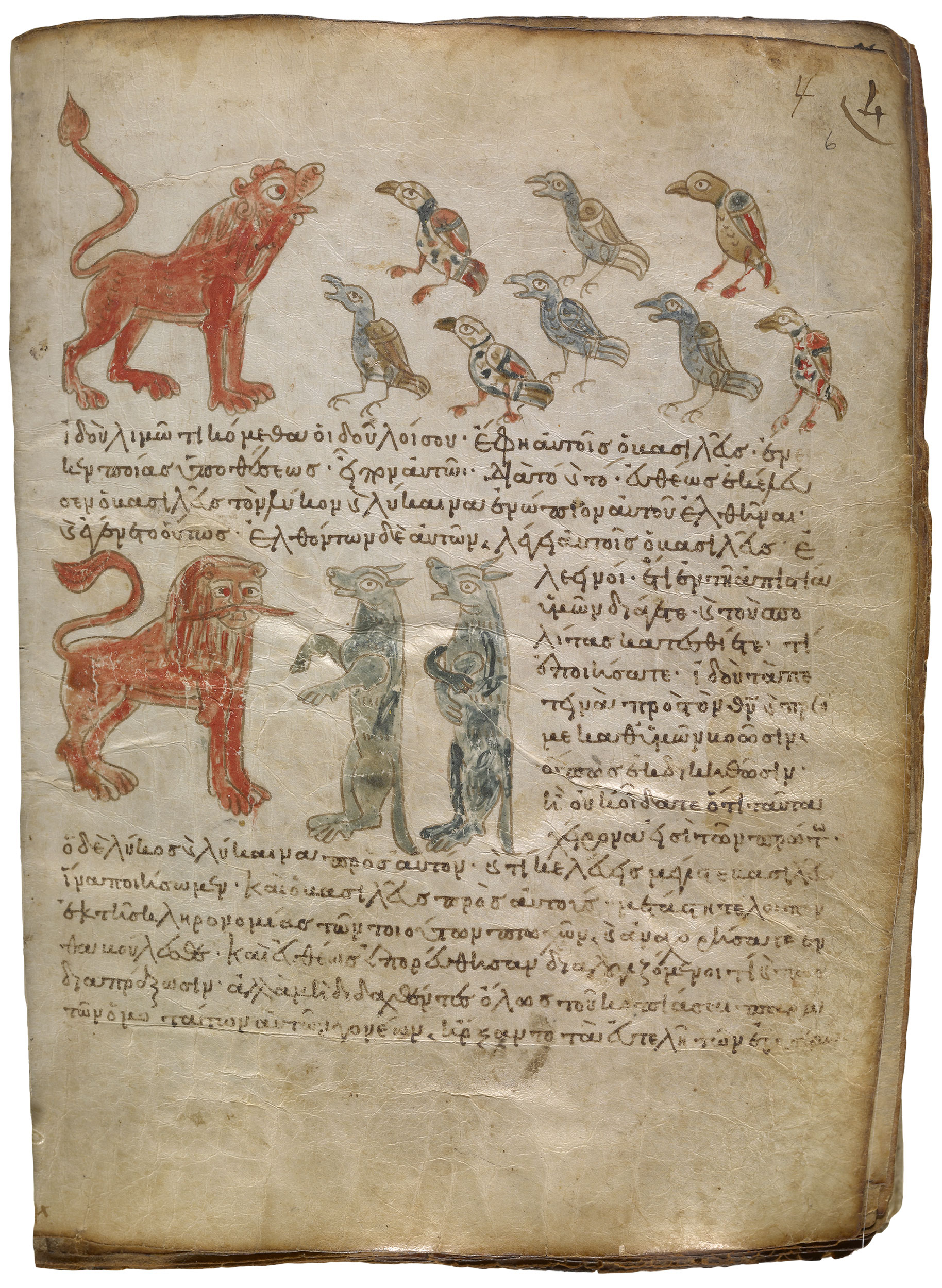 Page out of the Physiologus in the Morgan museum and library (New York)